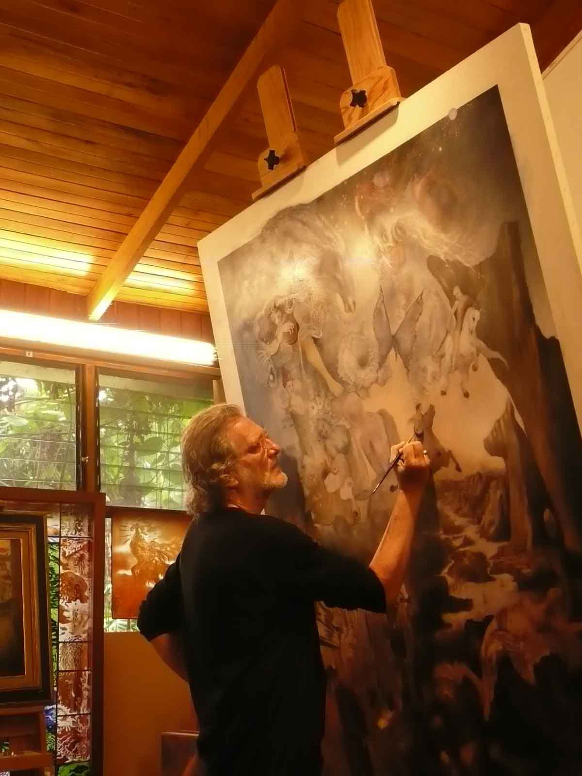 The Israeli artist Avi Feiler In his studio, located in Costa Rica.